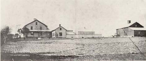 Herman Melville's Arrowhead estate in the 1860s.